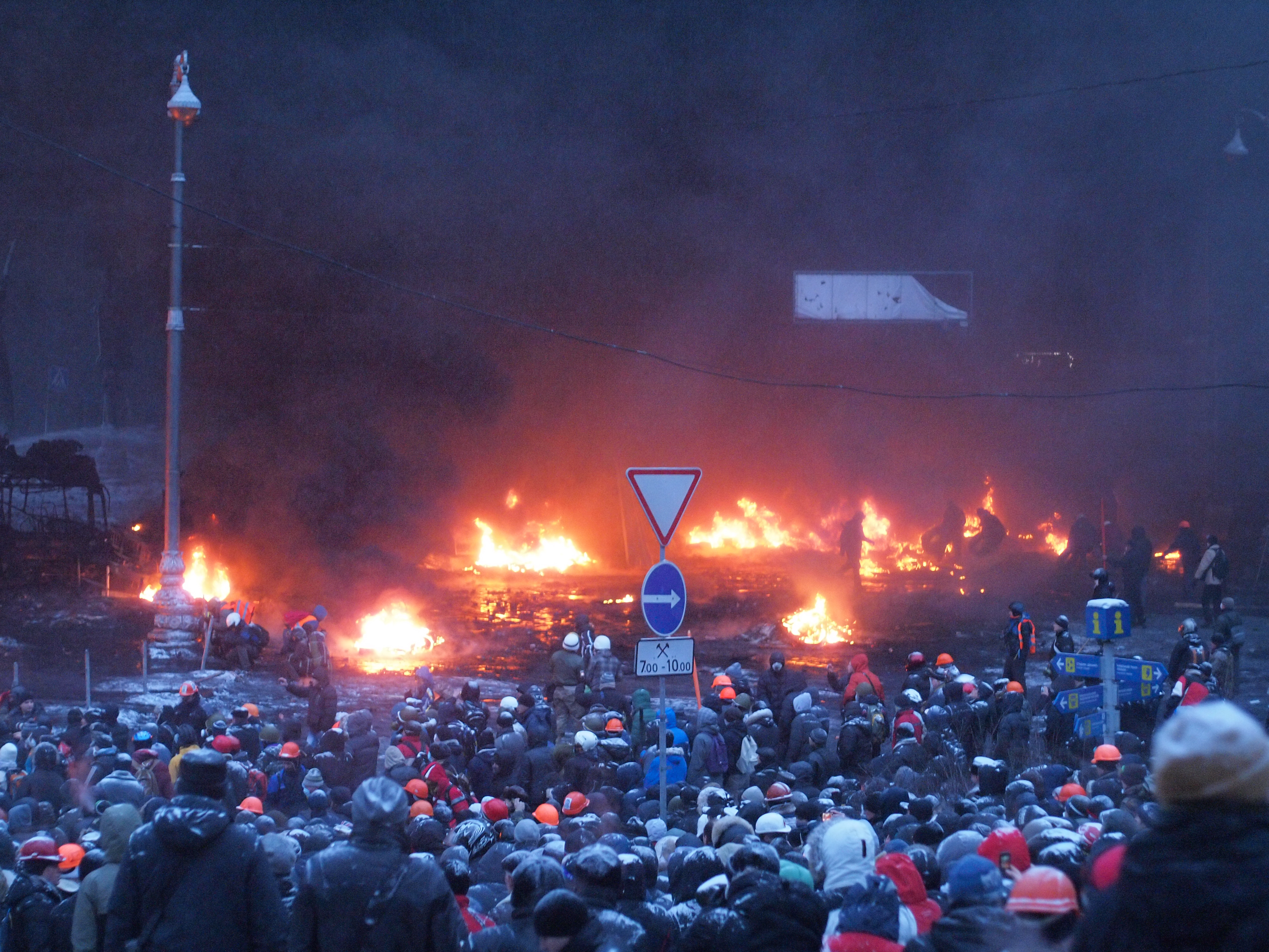 Protests on Hrushevskyi street, Kiev, 22 January 2014